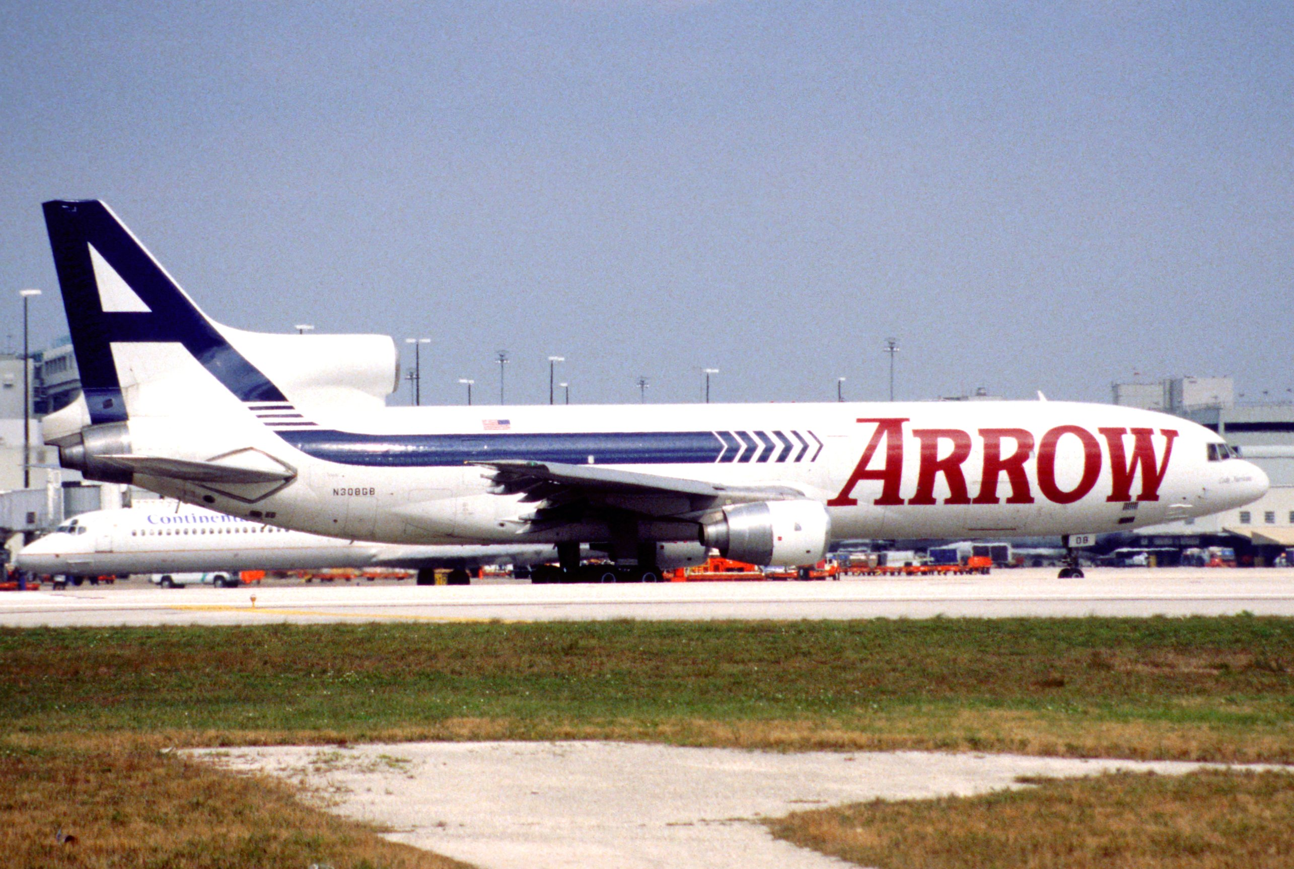 12ck - Arrow Air Lockheed L-1011 TriStar 200F; N308GB@MIA;31.01.1998